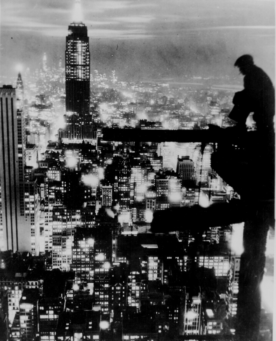 New York City at night ca. 1935